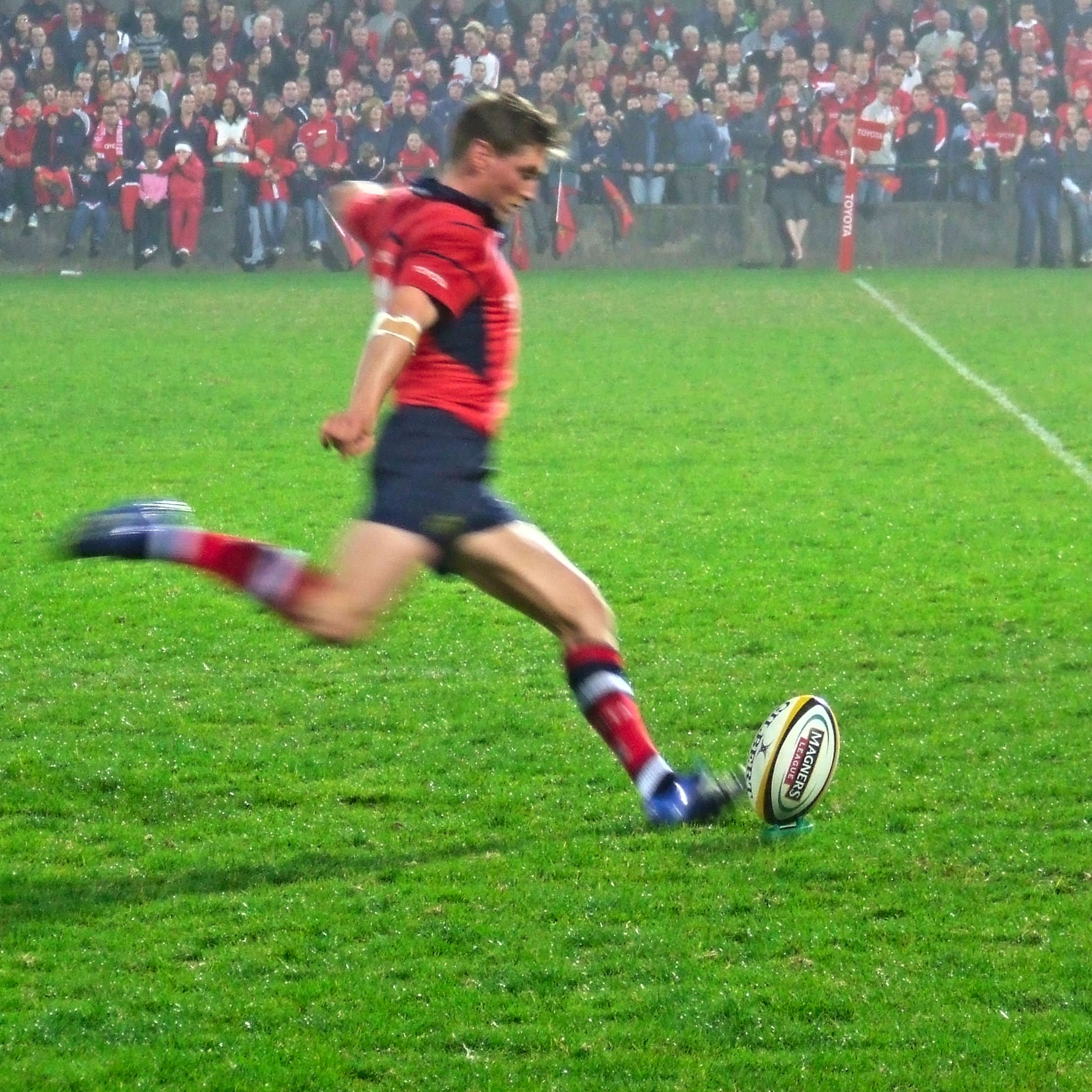 Ronan O'Gara (Munster Rugby) kicking a conversion in the Munster v Scarlets game in Musgrave Park.